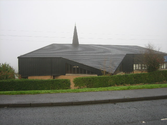 Braniel Church. Shared between Methodist and Presbyterian congregations.